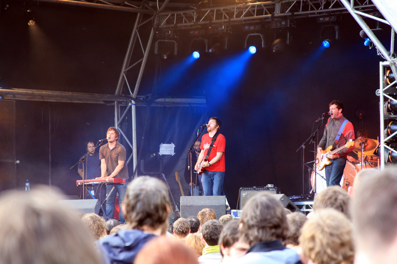 Indian Summer Festival 2006